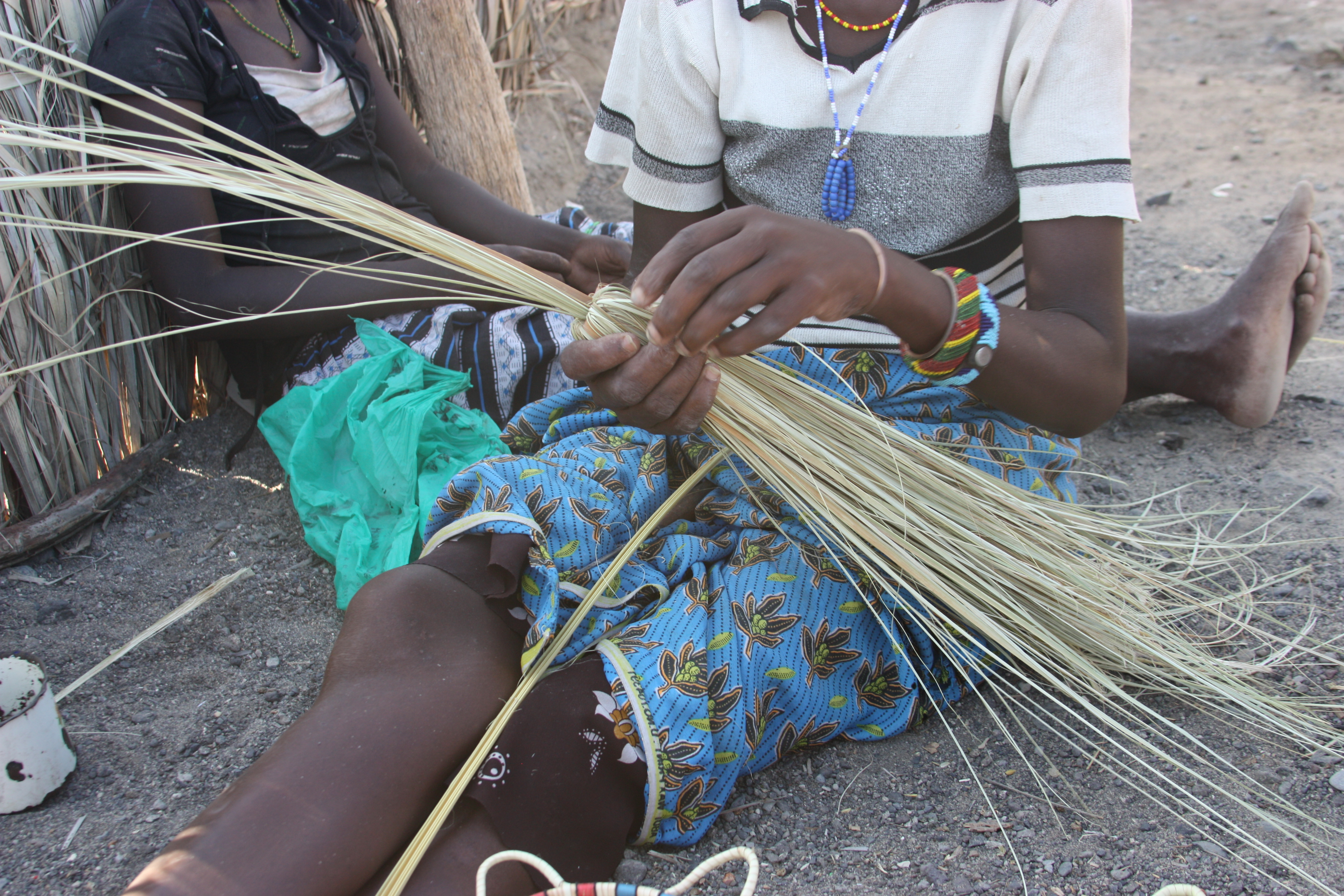 El Molo woman weaving a basket near the shore of Lake Turkana.